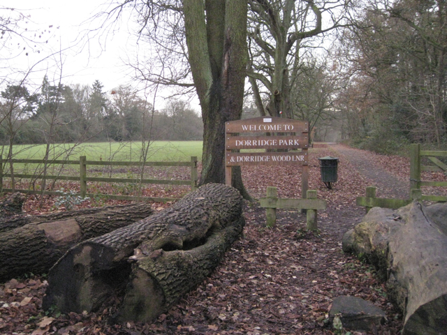 Way into Dorridge Park from Arden Drive B93